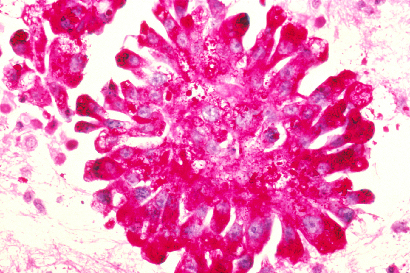 Genetic exchange between chromosomes can cause cells to become cancerous, like these cells from metastasized Ewing's sarcoma